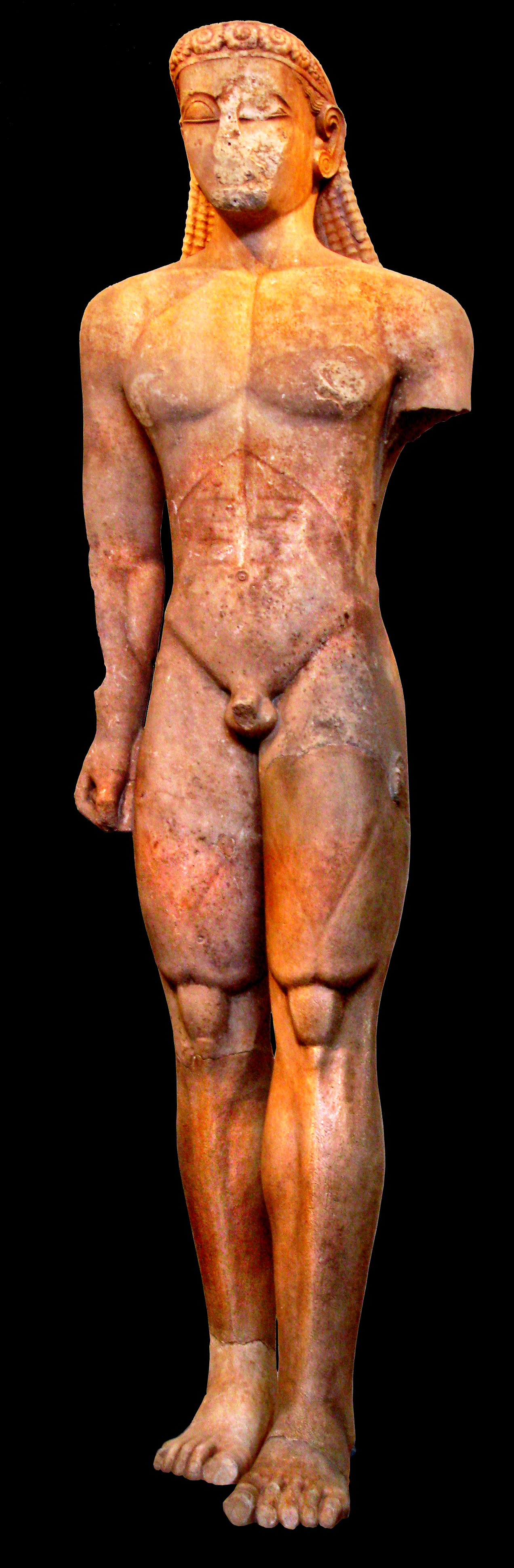 Sounion Kouros (ca. 590-580 BC.) - National Archaeological Museum. Athens, Greece. --- Εθνικό Αρχαιολογικό Μουσείο. Αθήνα.